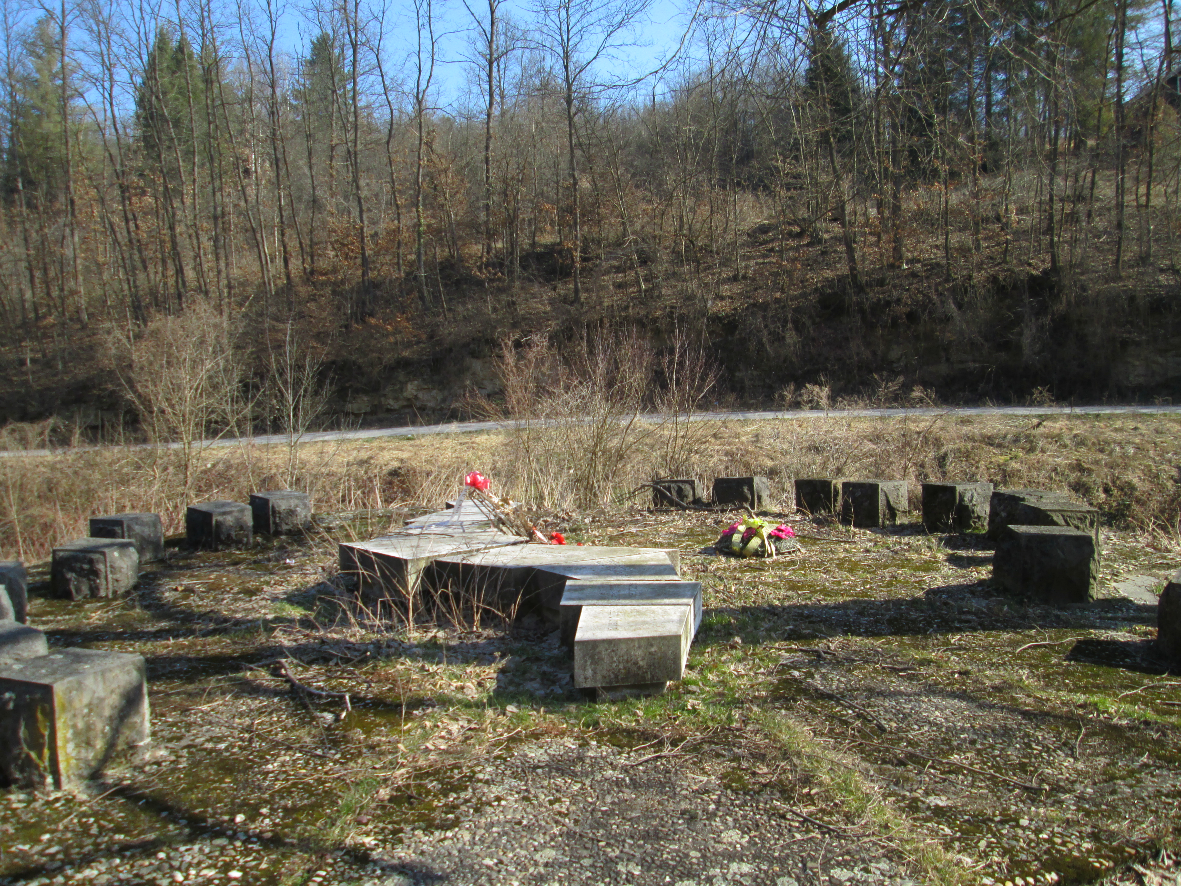 Monument to the fallen Partisans in village including national hero Stjepan Steva Abrlić. Српски (ћирилица): Споменик палим Партизанима у селу Лисовић, укључујући и комесара чете, народног хероја Стјепана Стеву Абрлића.